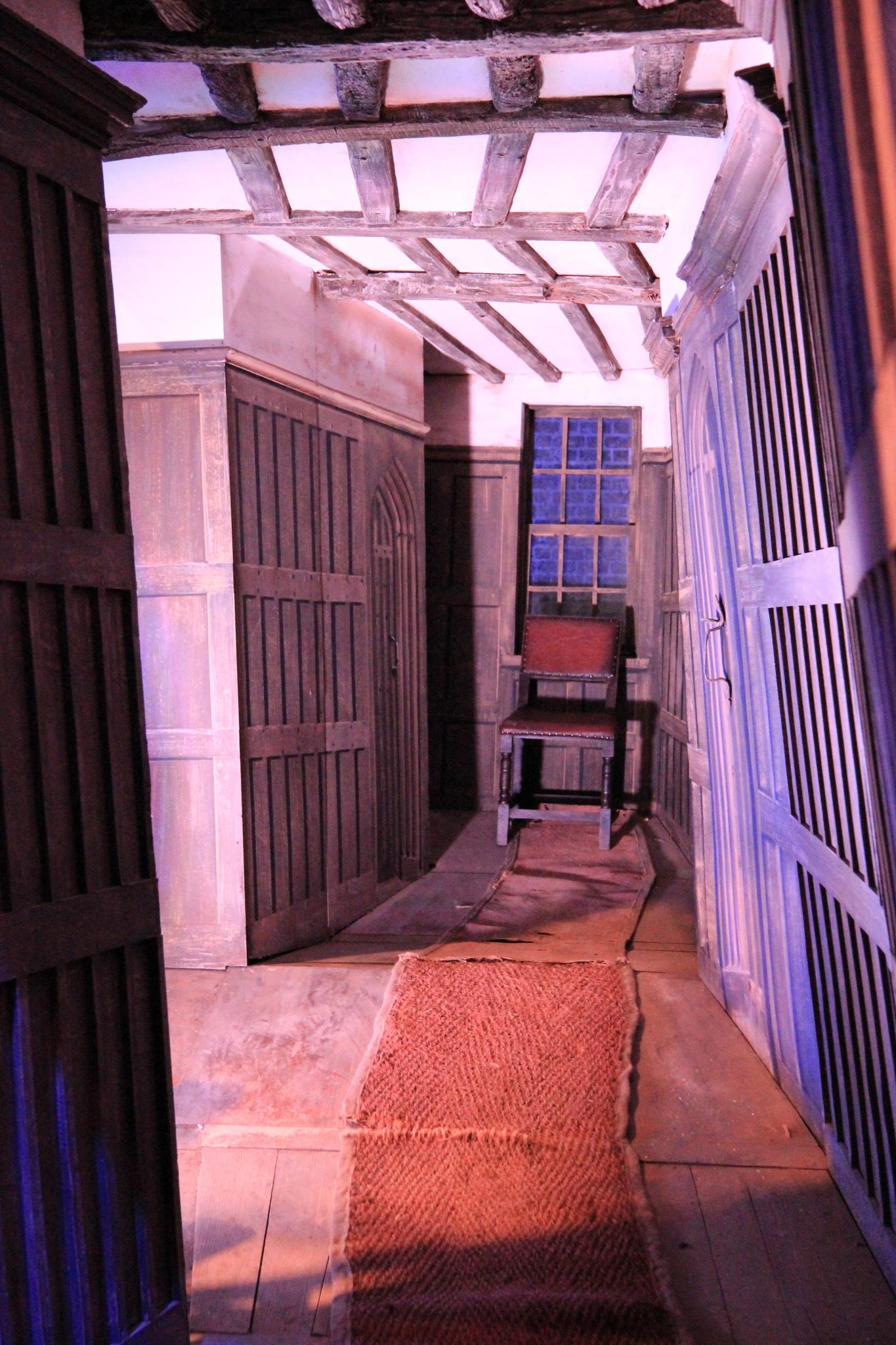 Warner Bros. Studio Tour London: The Making of Harry Potter.